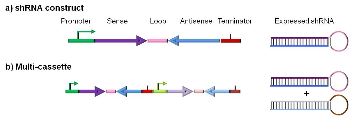 Aligned ddRNAi construct designs for the production of therapeutic shRNAs